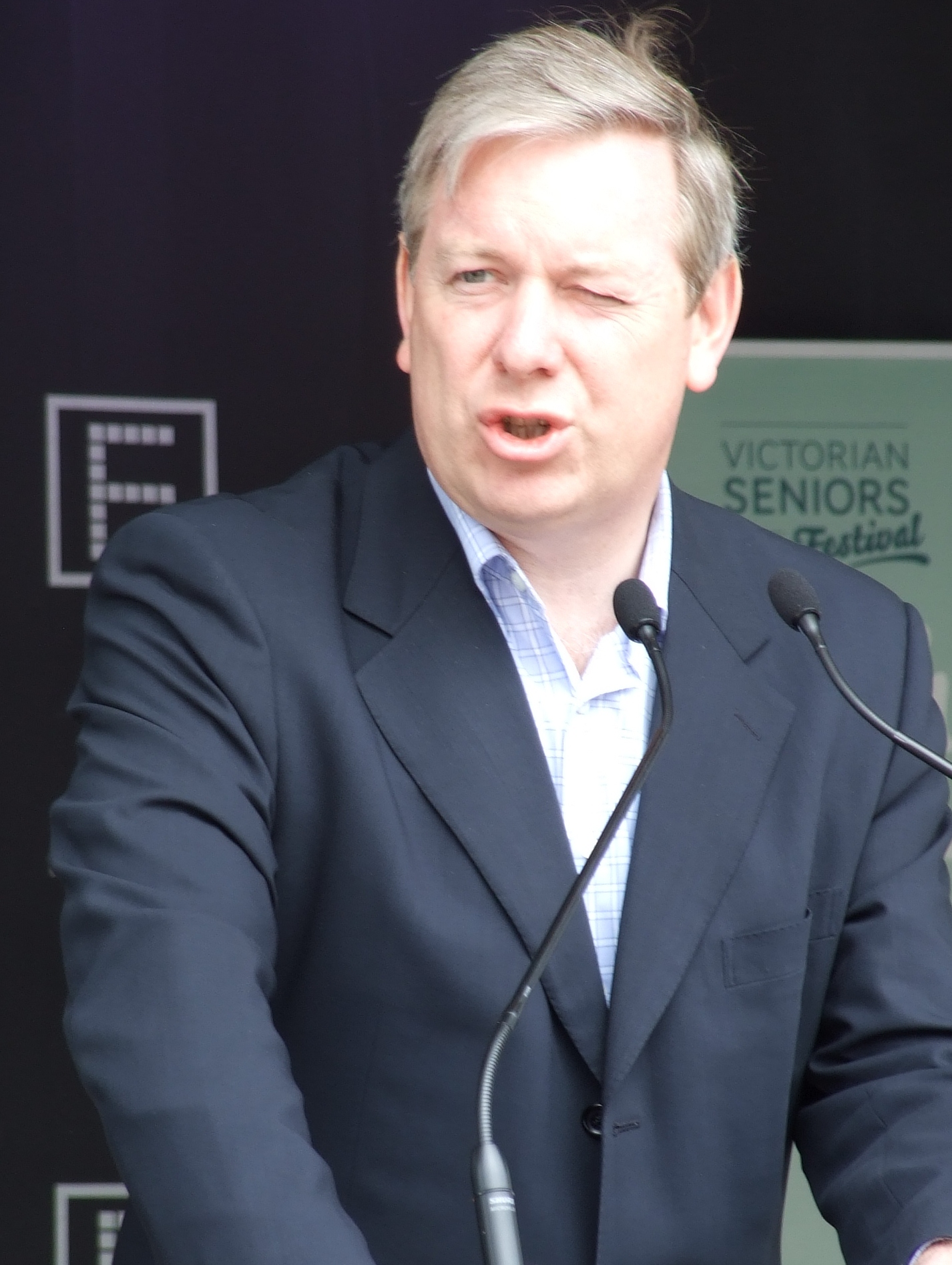 The Hon. David Davis, Minister for Health and Ageing in the Victorian Government, opening the 2012 U3A Carnival of Learning at Federation Square, Melbourne.